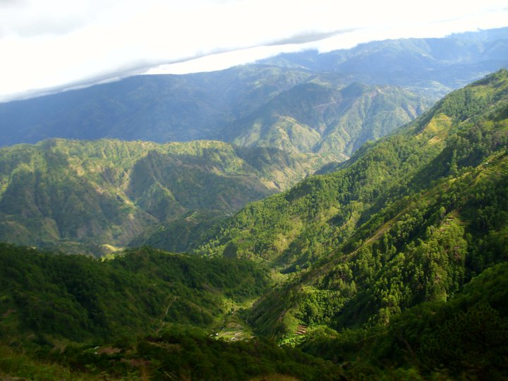 The bright morning light, shines on the mountains